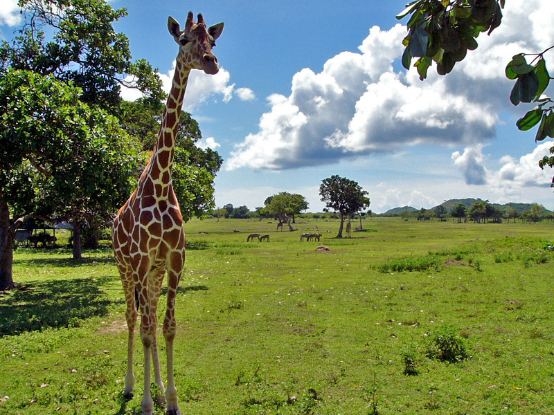 A young giraffe follows our truck around the grounds of Calauit Island Safari, Palawan, Philippines